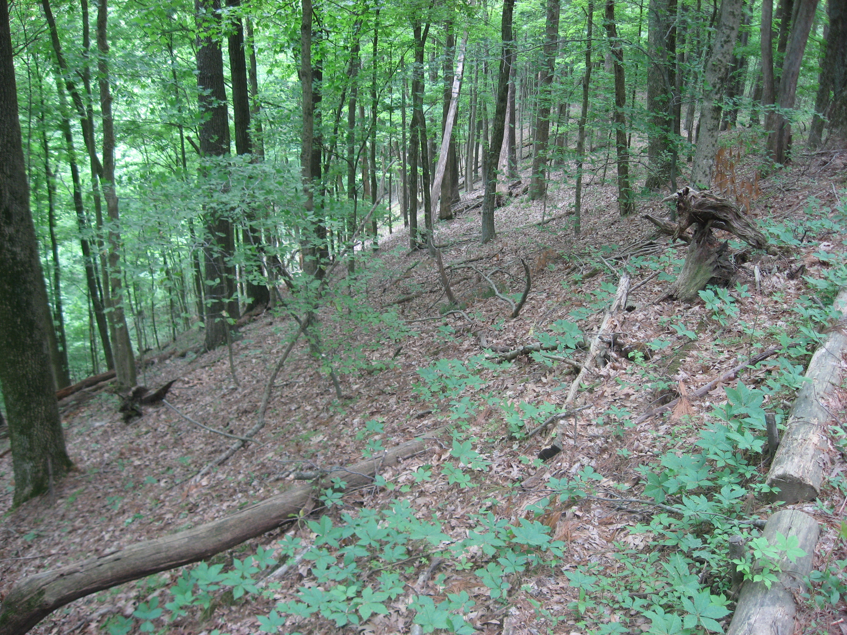 Looking down a hillside from the Peninsula Trail in the Charles C. Deam Wilderness Area of the Hoosier National Forest, located southeast of Bloomington in Polk Township, Monroe County, Indiana, United States.